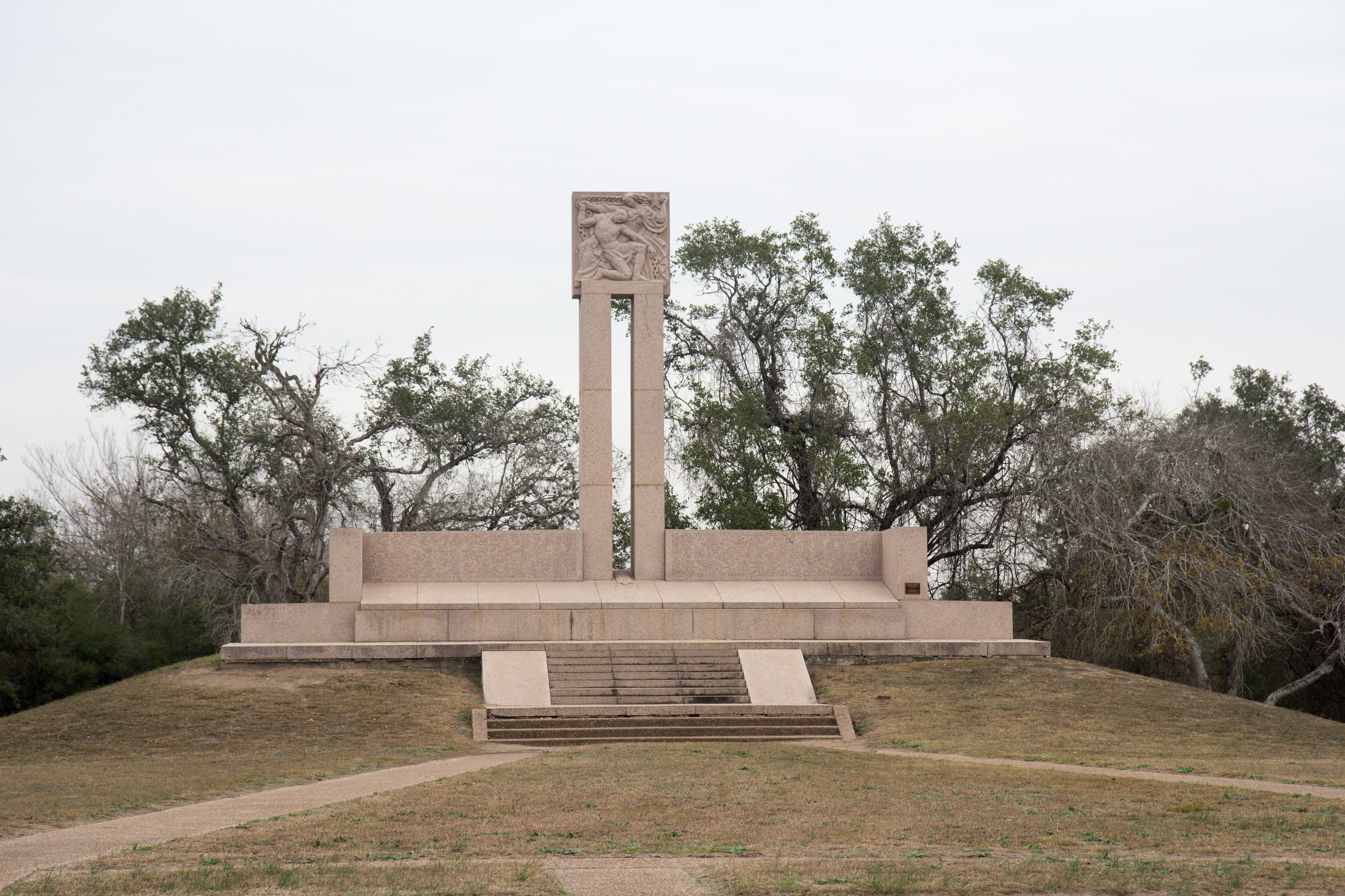 This Monument marks the location of where the Texans from the Goliad Massacre are buried.